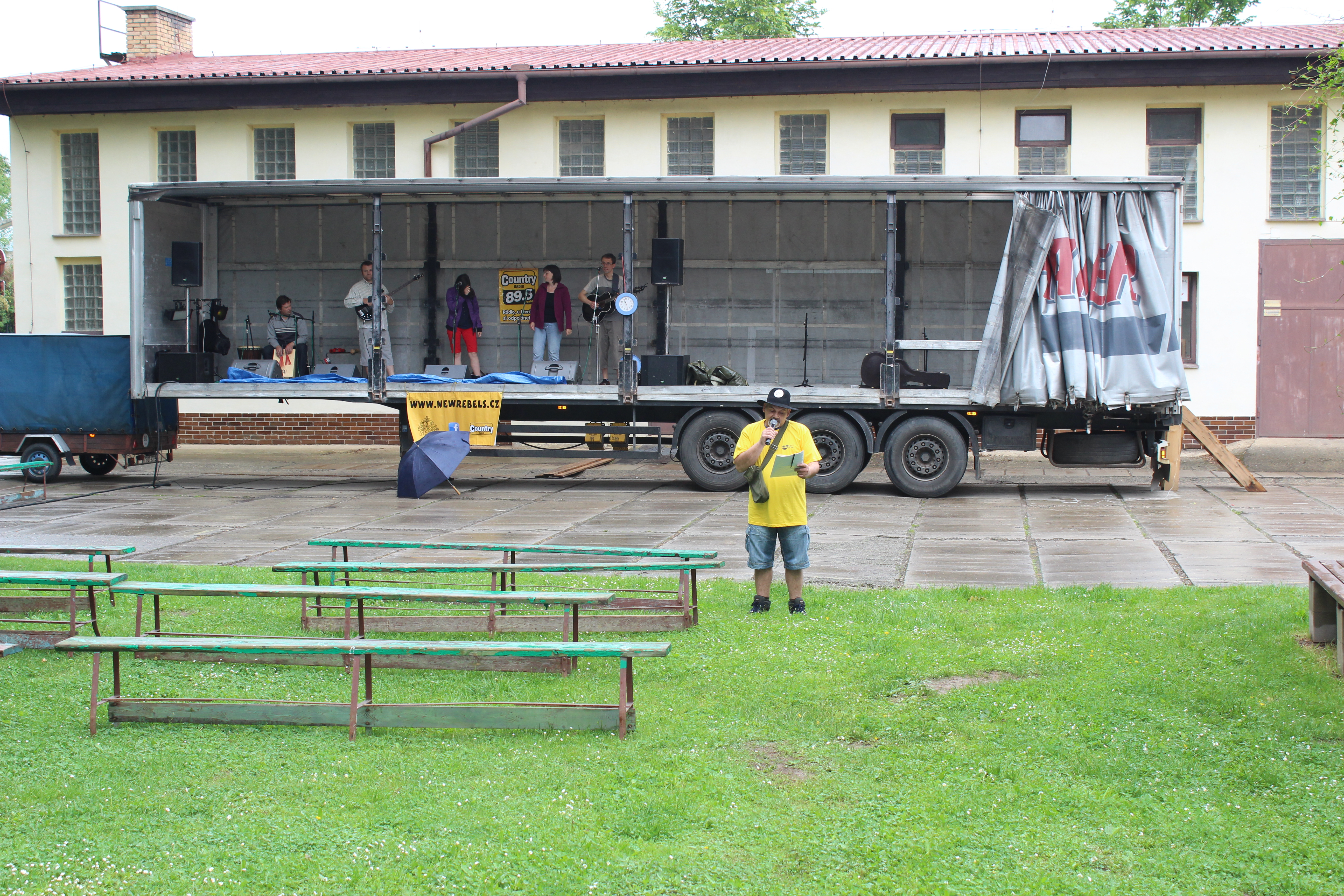 Liteňfest - Folk & Country Festival in Liteň (District Beroun)